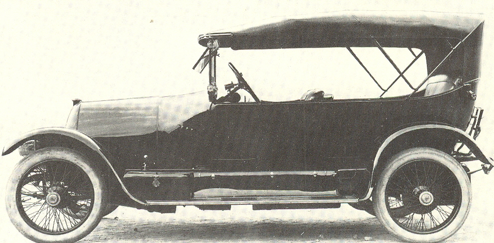 Fiat Tipo 3Ter Torpedo (1912)